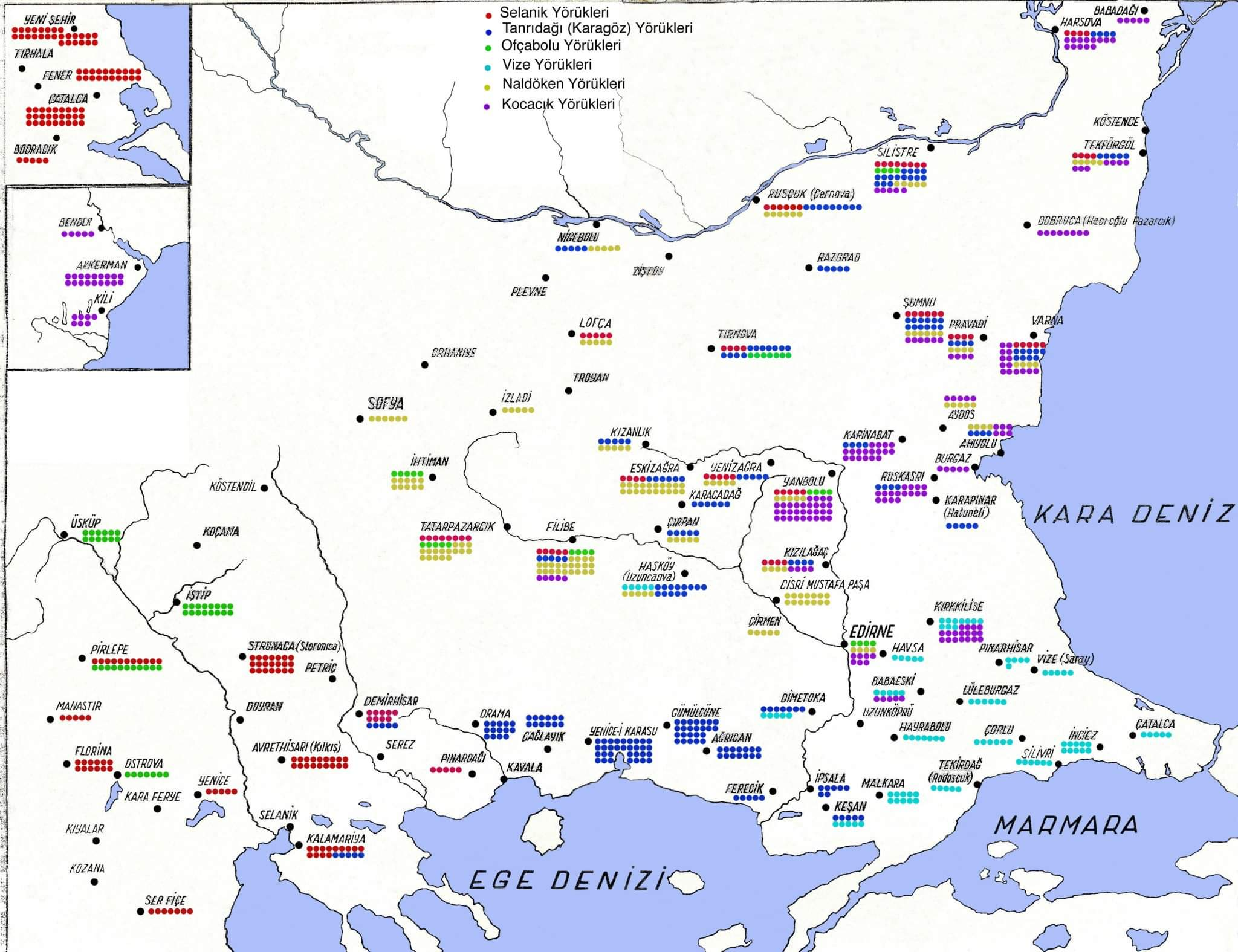 Demographic distribution of Yörüks (Turkish ethnic subgroup) in the balkans